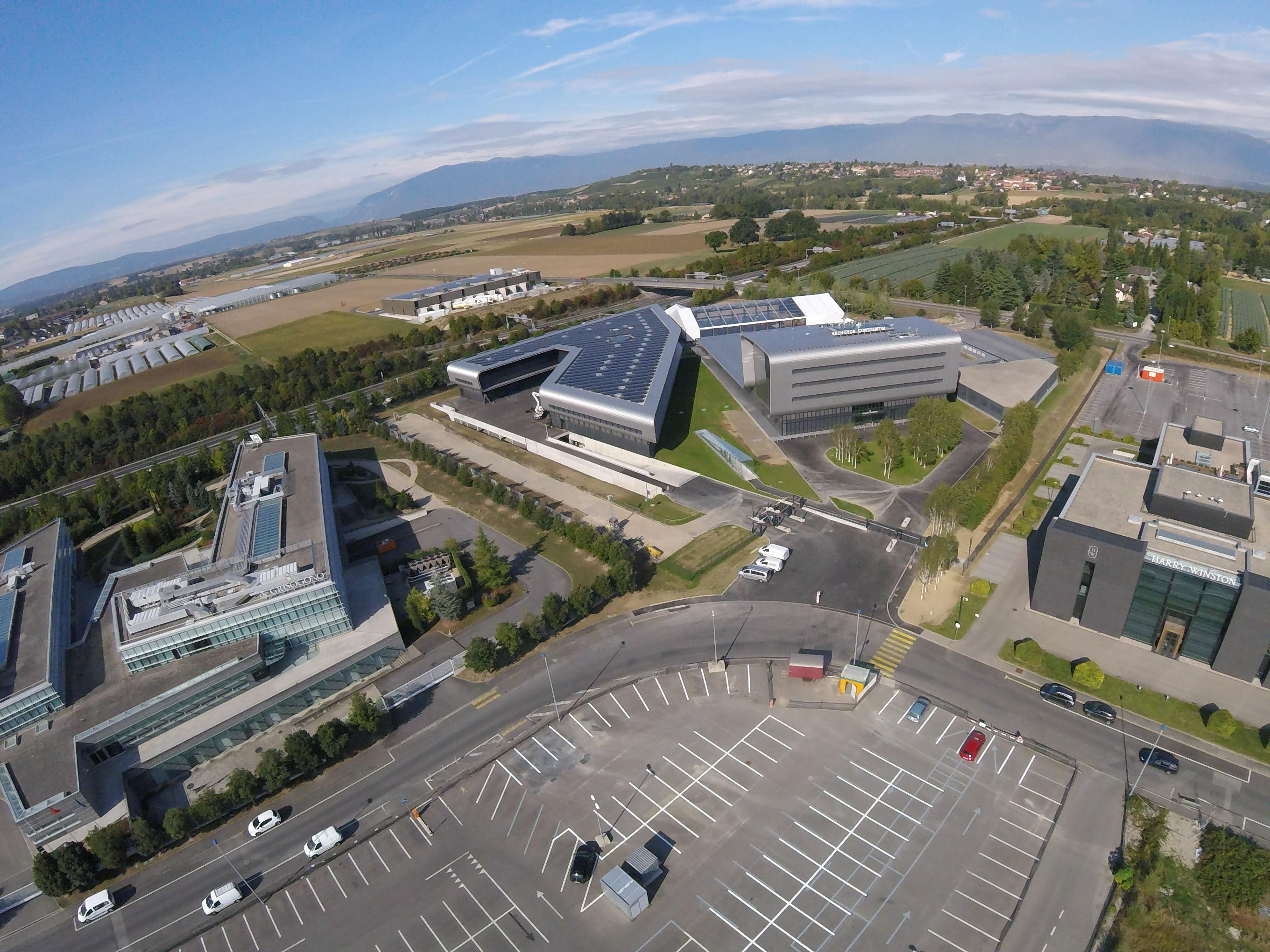 Vacheron Constantin building in Geneva, Switzerland.